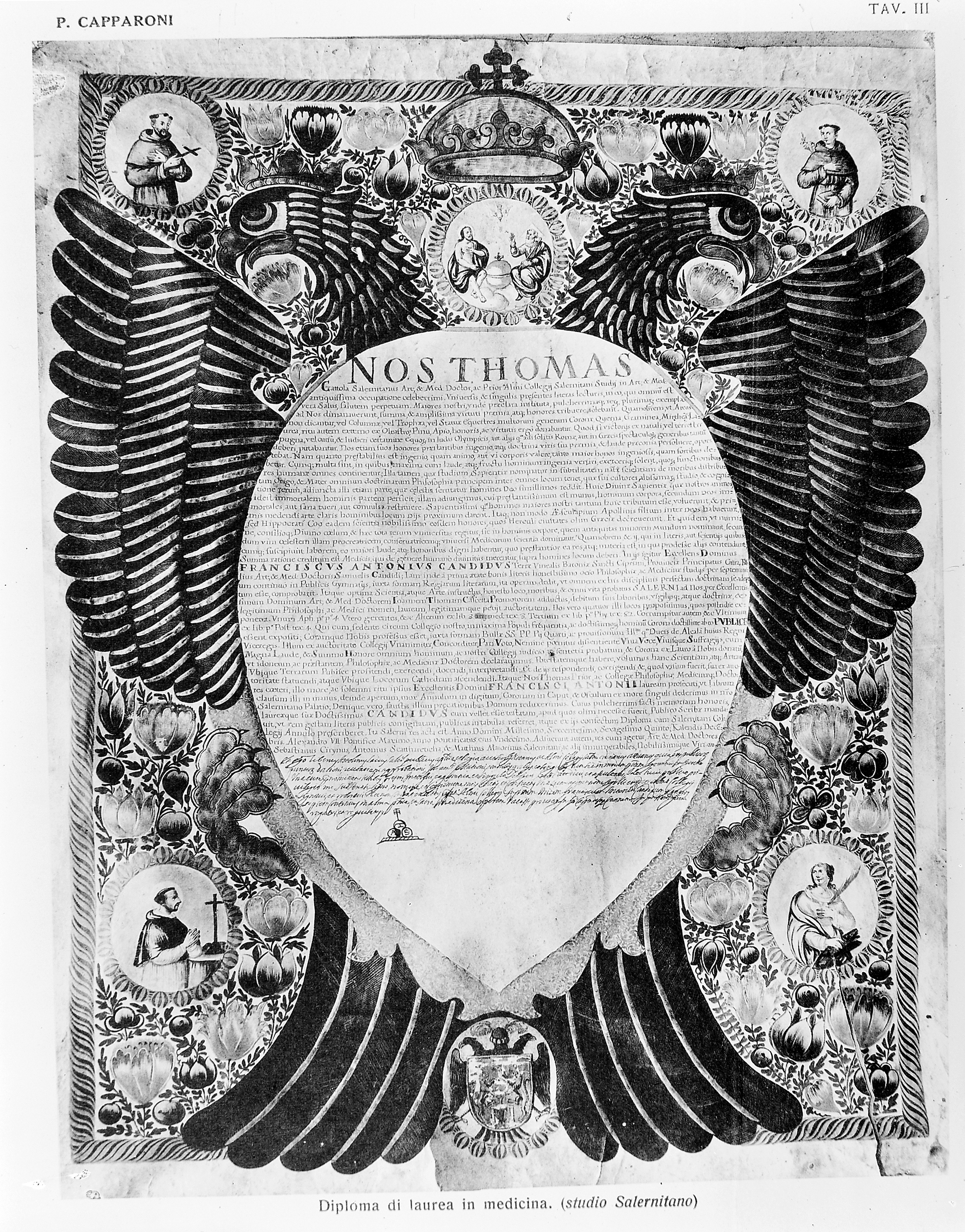 Medical Diploma granted by Salerno. Wellcome Images Keywords: diplomas; medical licenses